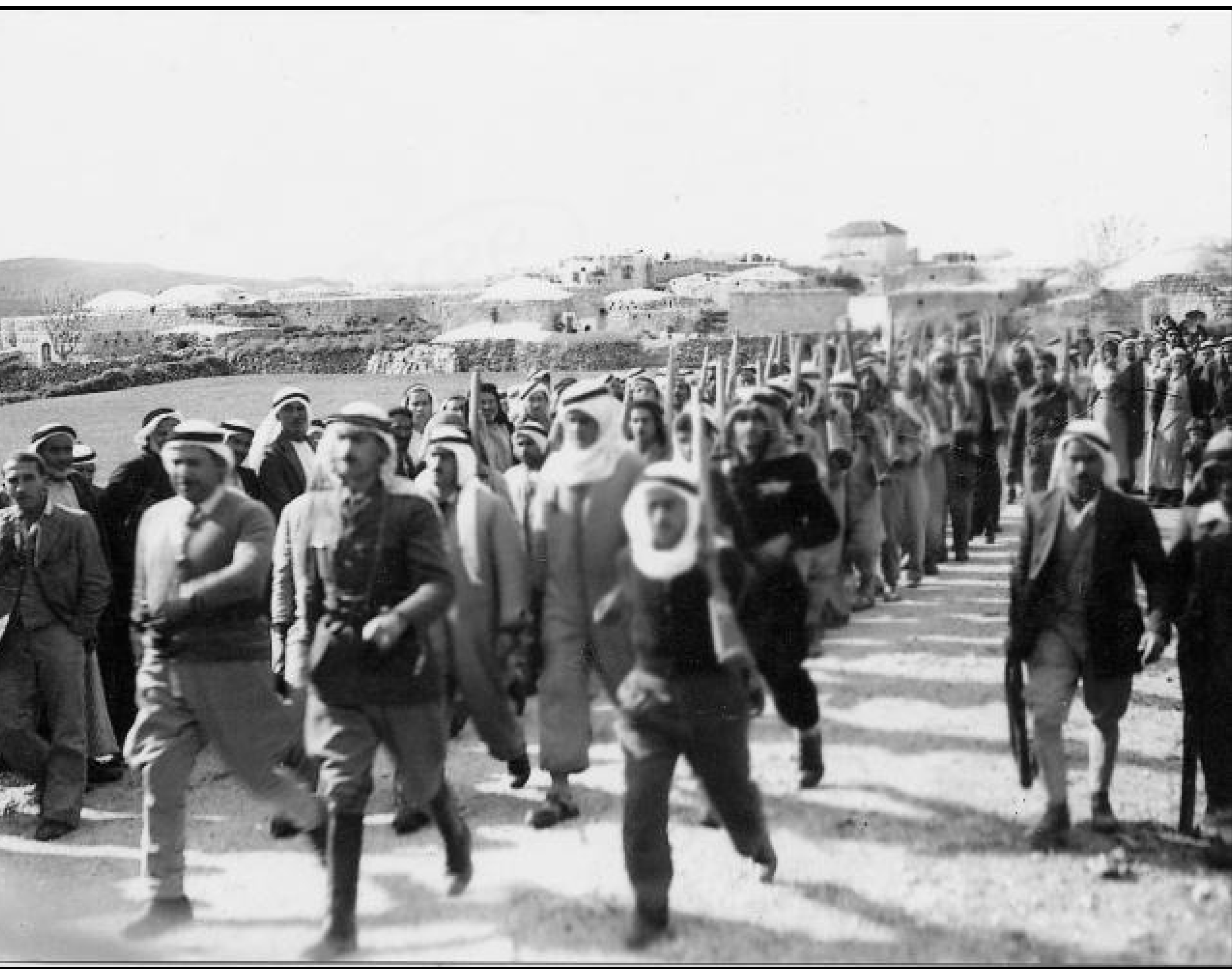 Al-Kadir al Husayni with volunteers. 1948.